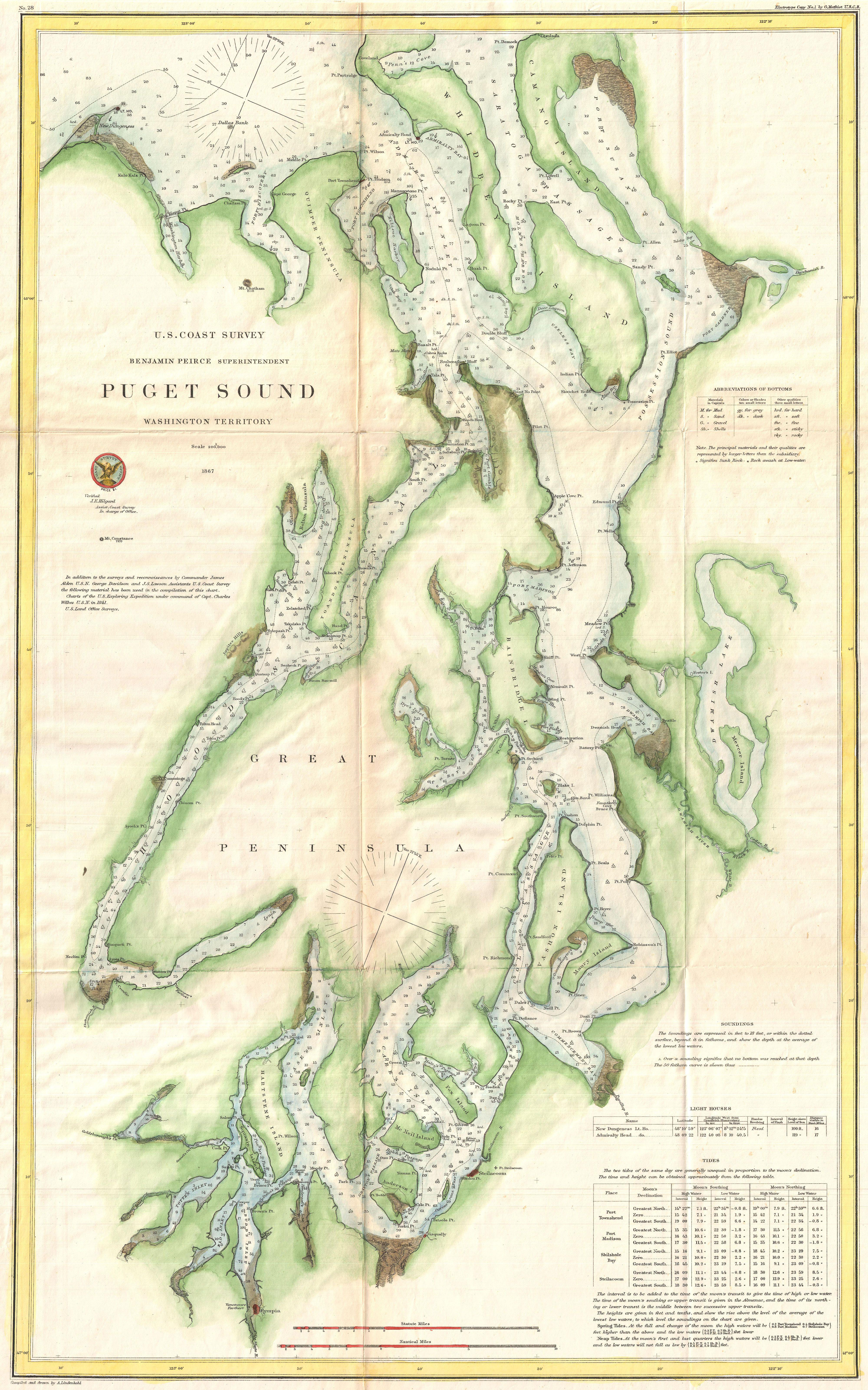 This is a very uncommon U.S. Coast Survey maritime map or nautical chart of the Puget Sound, Washington Territory, dating to 1867. Covers the Sound from Quimper Peninsula and Whidbey Island south as far as Olympia. The map identifies the various islands as well as safe channels and countless triangulation points throughout. Olympia, Nisqually, Steilacoom, and Seattle are named, though, aside from Olympia, most were undeveloped. Countless depth soundings appear throughout. Notes on soundings light houses, and tides appear in the lower right quadrant. Prepared under the supervision of Benjamin Pierce, Superintendent of the U.S. Coast Survey, for the 1867 Superintendent’s Report to Congress.